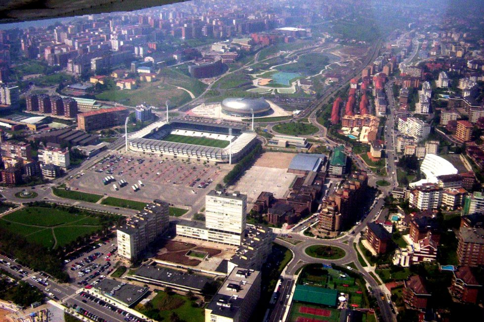 El Sardinero stadium, Sports Palace and Las Llamas park (Santander, Spain)